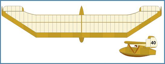 Schul/Marcinsky "Stadt Magdeburg"